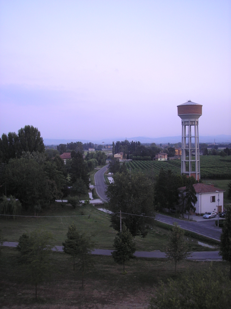 View of the Po Valley from Massenzatico's bell tower